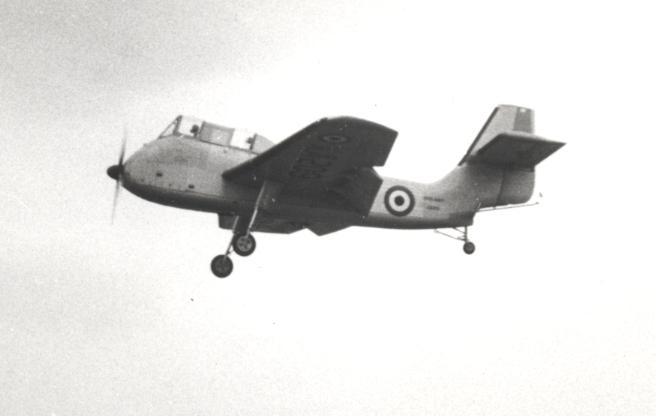 Short Seamew XA 209 landing at Farnborough SBAC Show